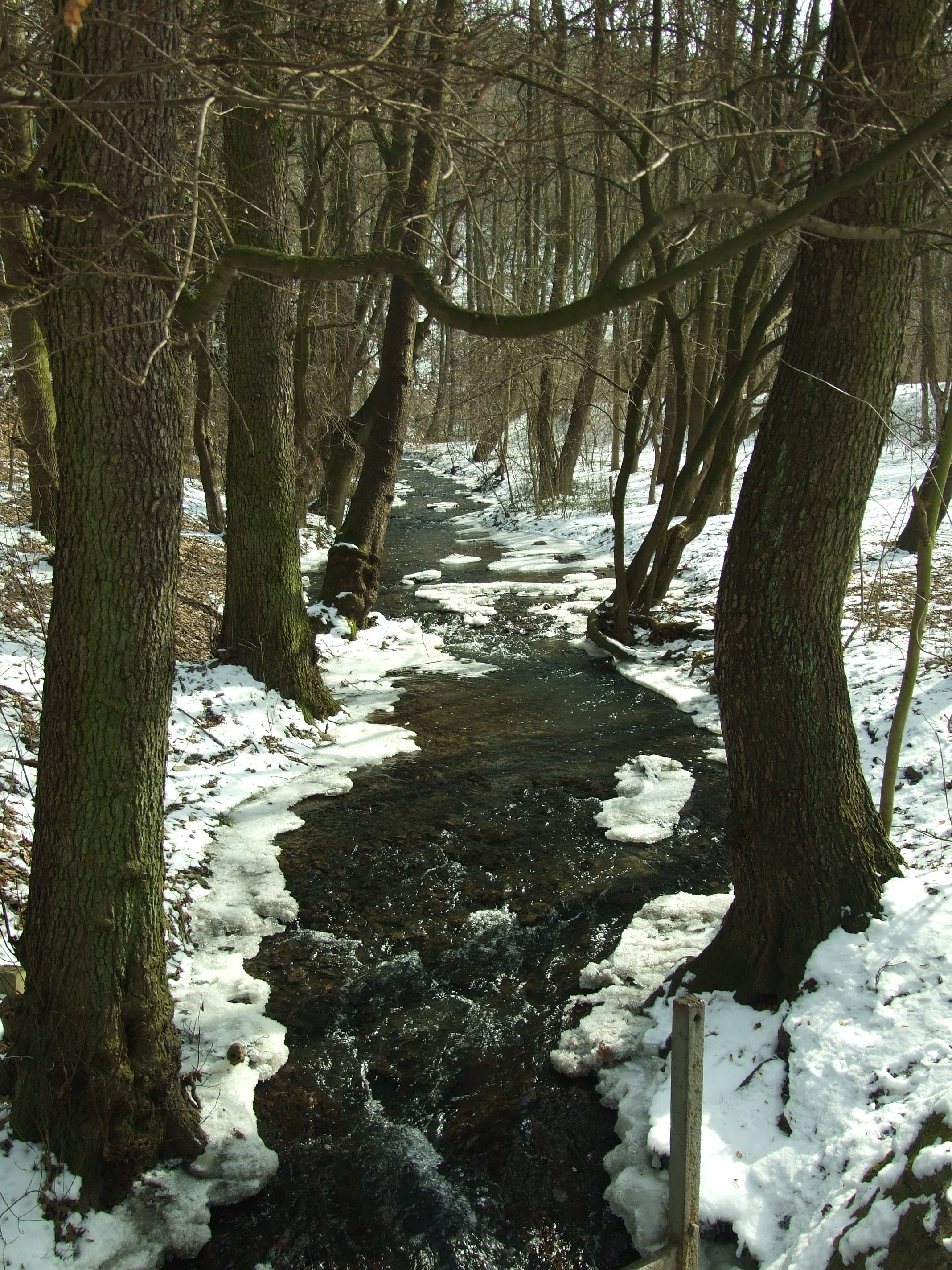 Únětický potok creek near Roztoky u Prahy in march 2010, Central Bohemian Region, CZ